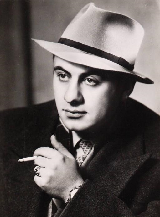 Bulgarian opera singer Raffaele Arié (1920-1988).